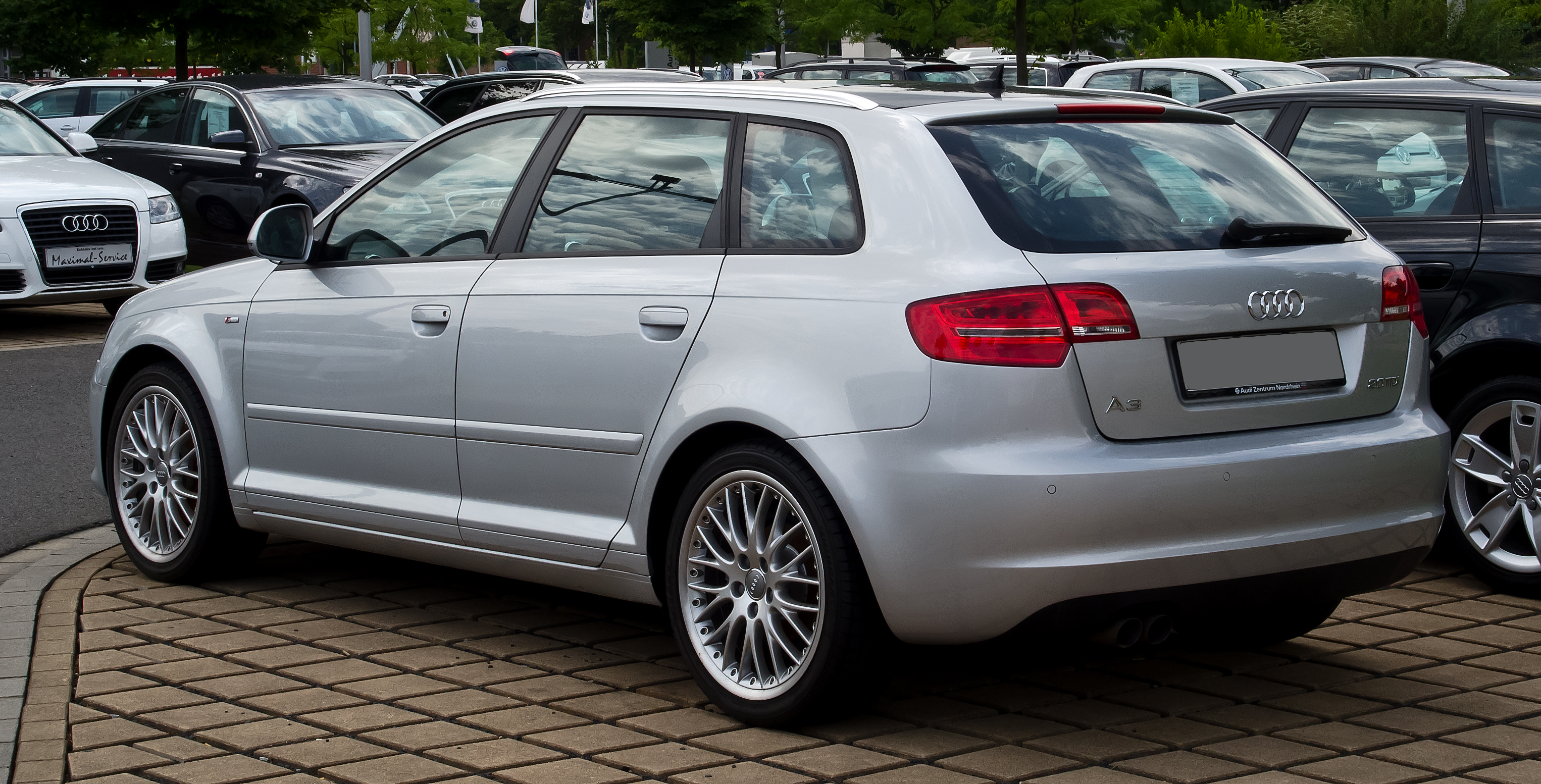 Audi A3 Sportback 2.0 TDI Ambition S-line (8PA, 2. Facelift)